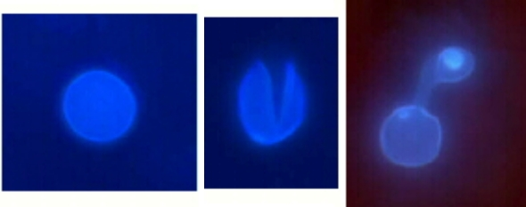 Conidiospores of Hyaloperonospora parasitica (downy mildew) germinating on the leaf of Arabidopsis thaliana (cf.wikipedia) observed by fluorescent microscopy. Double staining: The staining with calcofluor makes the cell walls of H. parasitica fluoresceing in blue and the staining with aniline blue staining reveal callose deposition in a blue/yellow color. From left to right: fresh conidiospore intact, opening conidiospore starting to germinate (3h after inoculation), germinated conidiospore (6h after inoculation) with a short germ tube trying to penetrate between cells of A. thaliana by doing an appressorium surrounded by callose deposition. This is the first step of the short life cycle of H. parasitica.